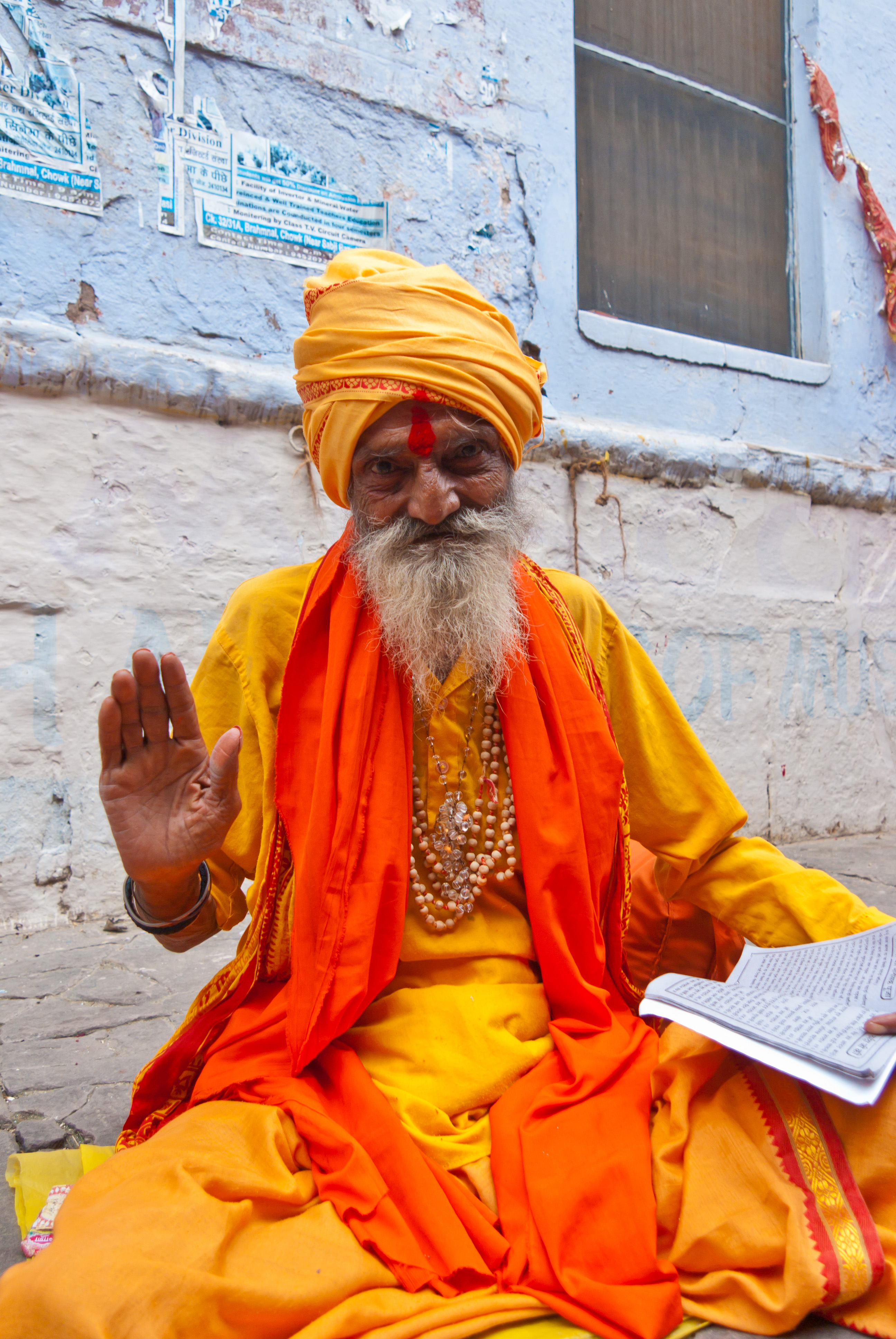 People of Varanasi